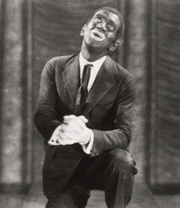 Warner Bros. publicity photo for the film The Jazz Singer (1927), featuring its starAl Jolson. Source: Scan from private collection Original publisher/holder of property rights: Warner Bros.